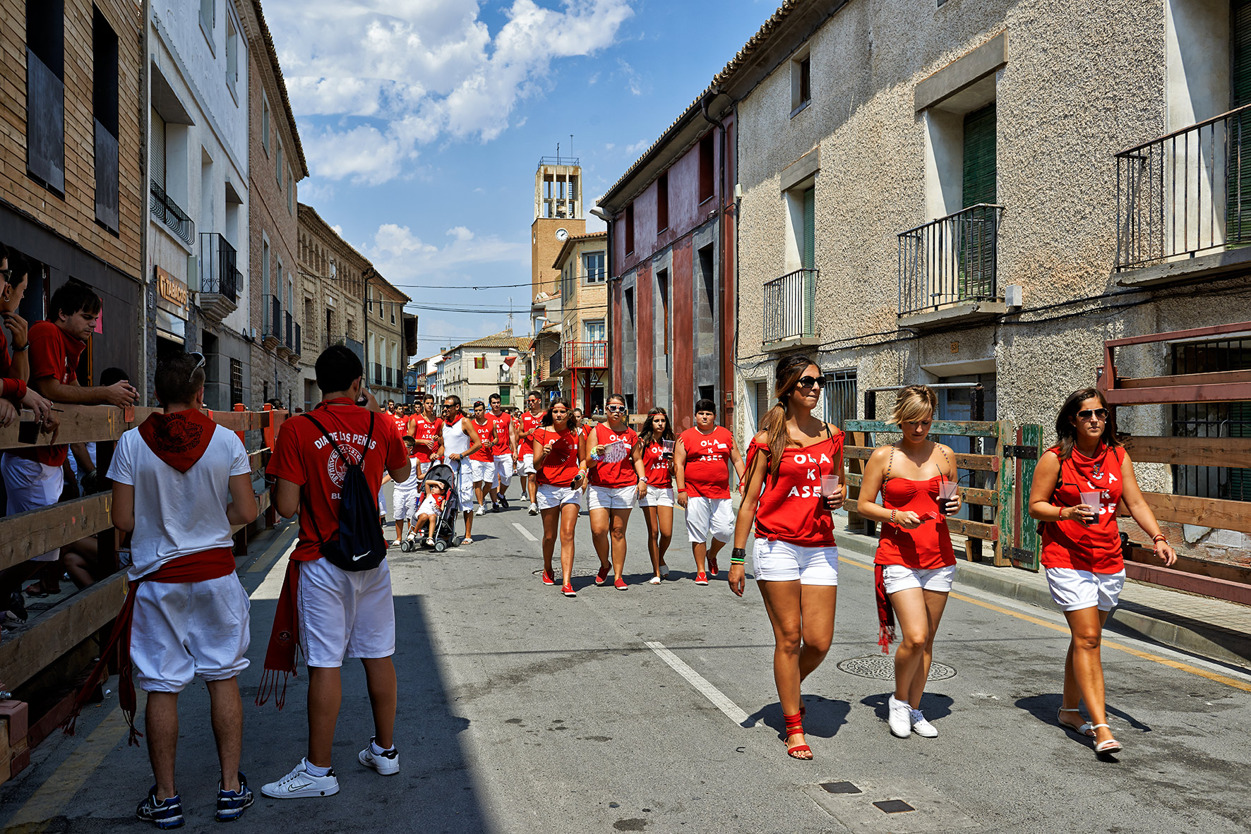 Buñuel summer popular fest "Dia de las peñas" (Navarra, Spain)